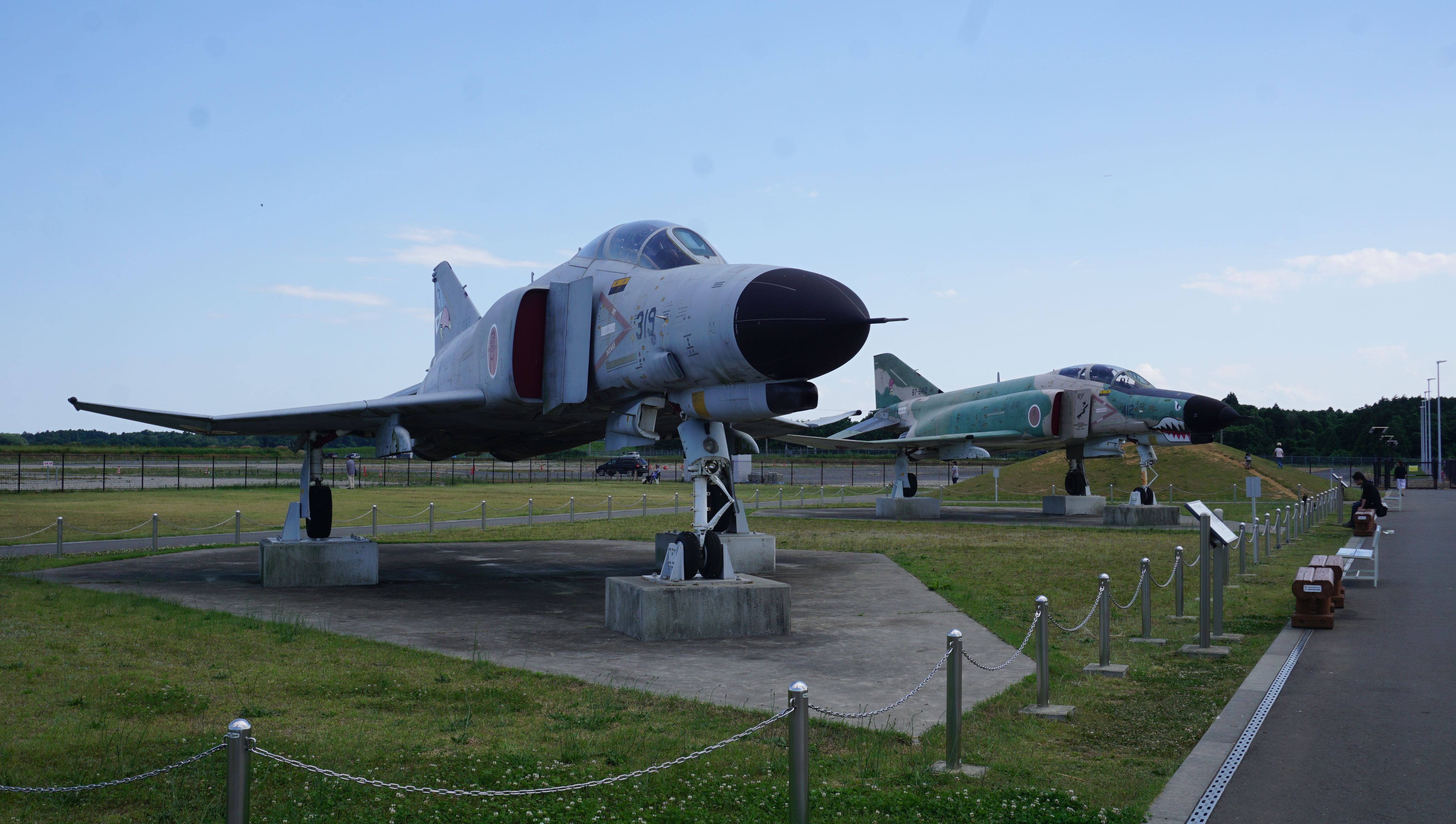 Ex-JASDF F-4EJ in front of Ibaraki Airport